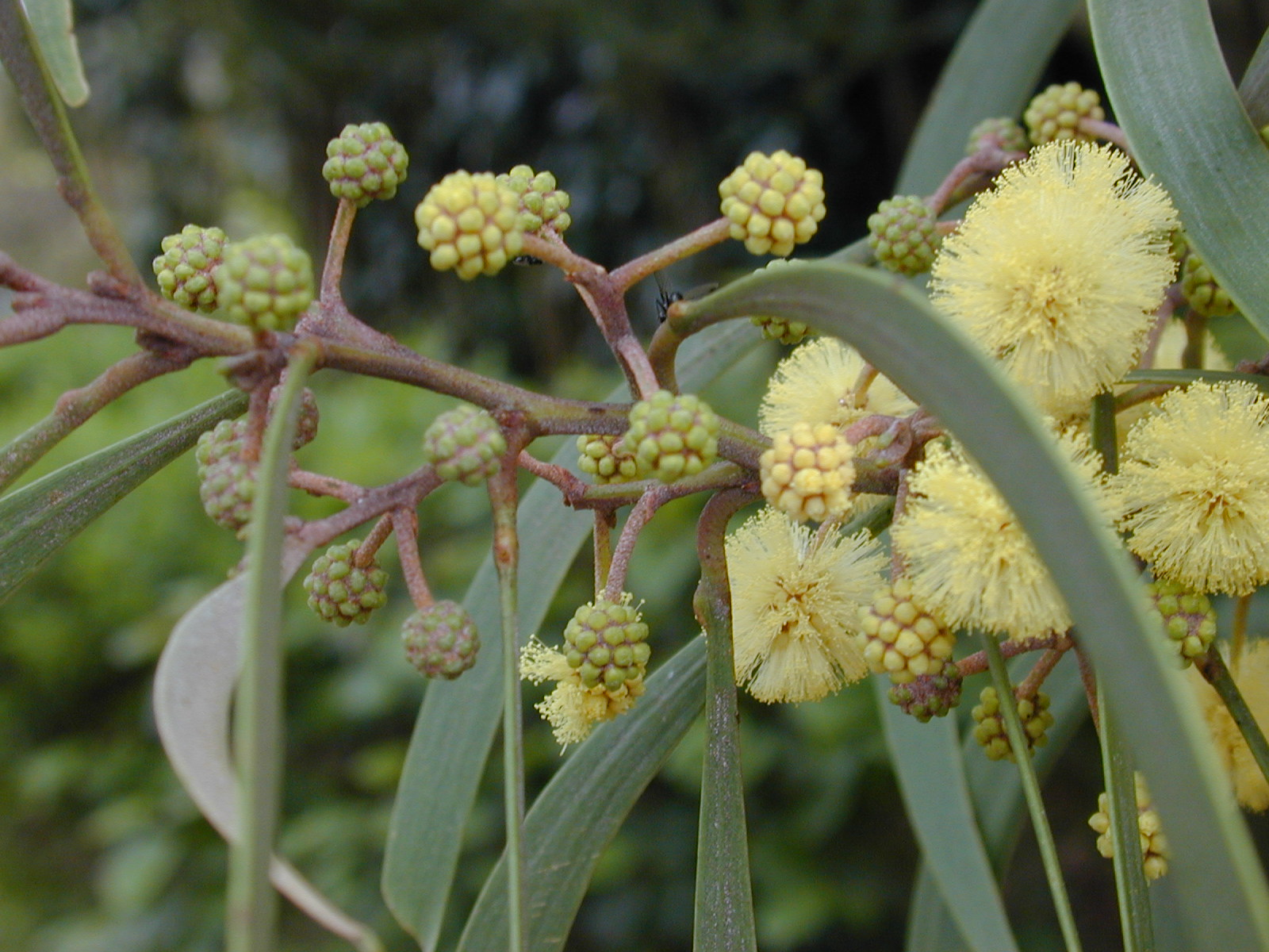 Acacia koaia (flowers). Location: Maui, Makawao